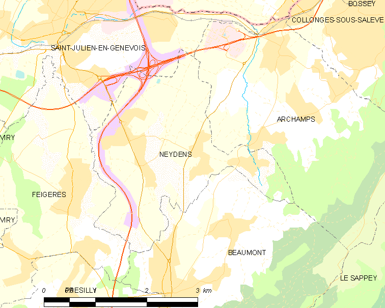 Map of French municipality Neydens